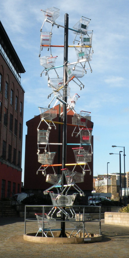 DNA DL90